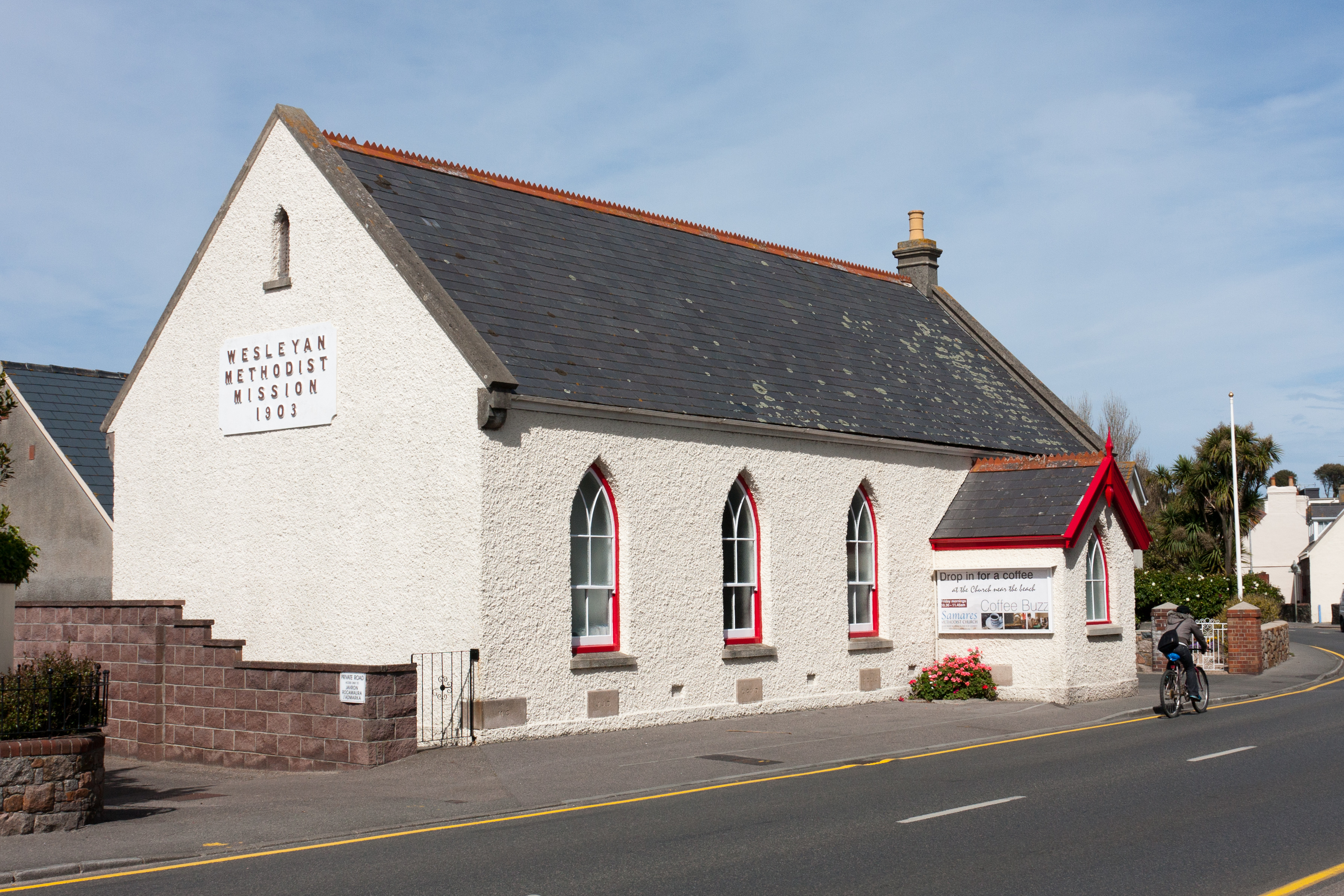 Samarès Methodist Church, Jersey.